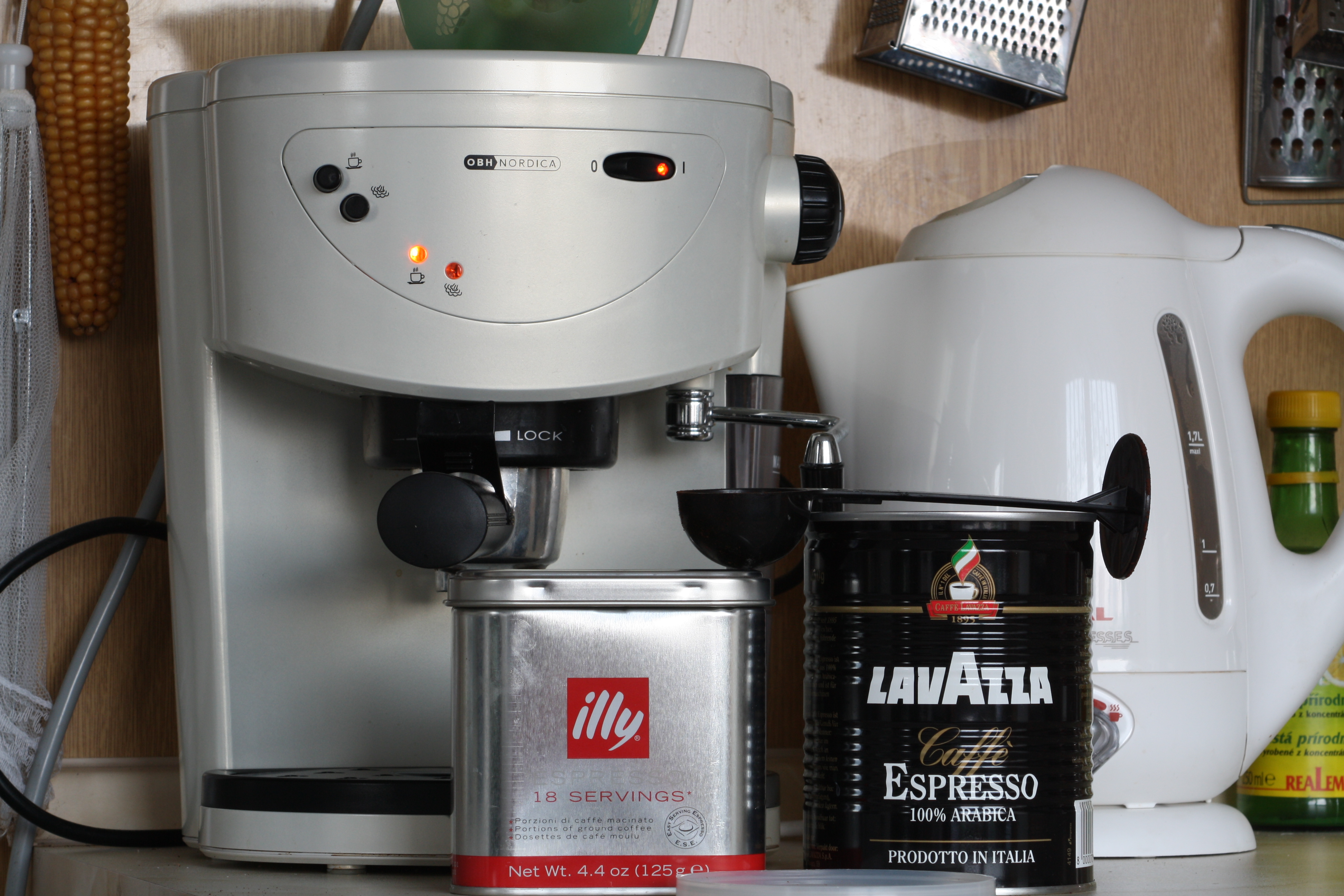 Coffee cans.